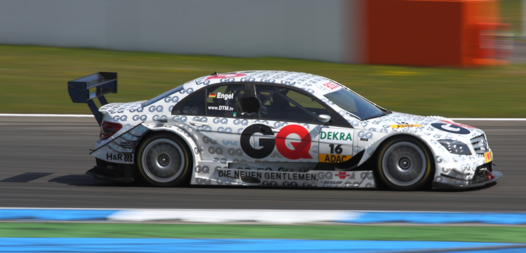 DTM car Mercedes-Benz Season 2010 (C-Class, W204), Maro Engel (driver)